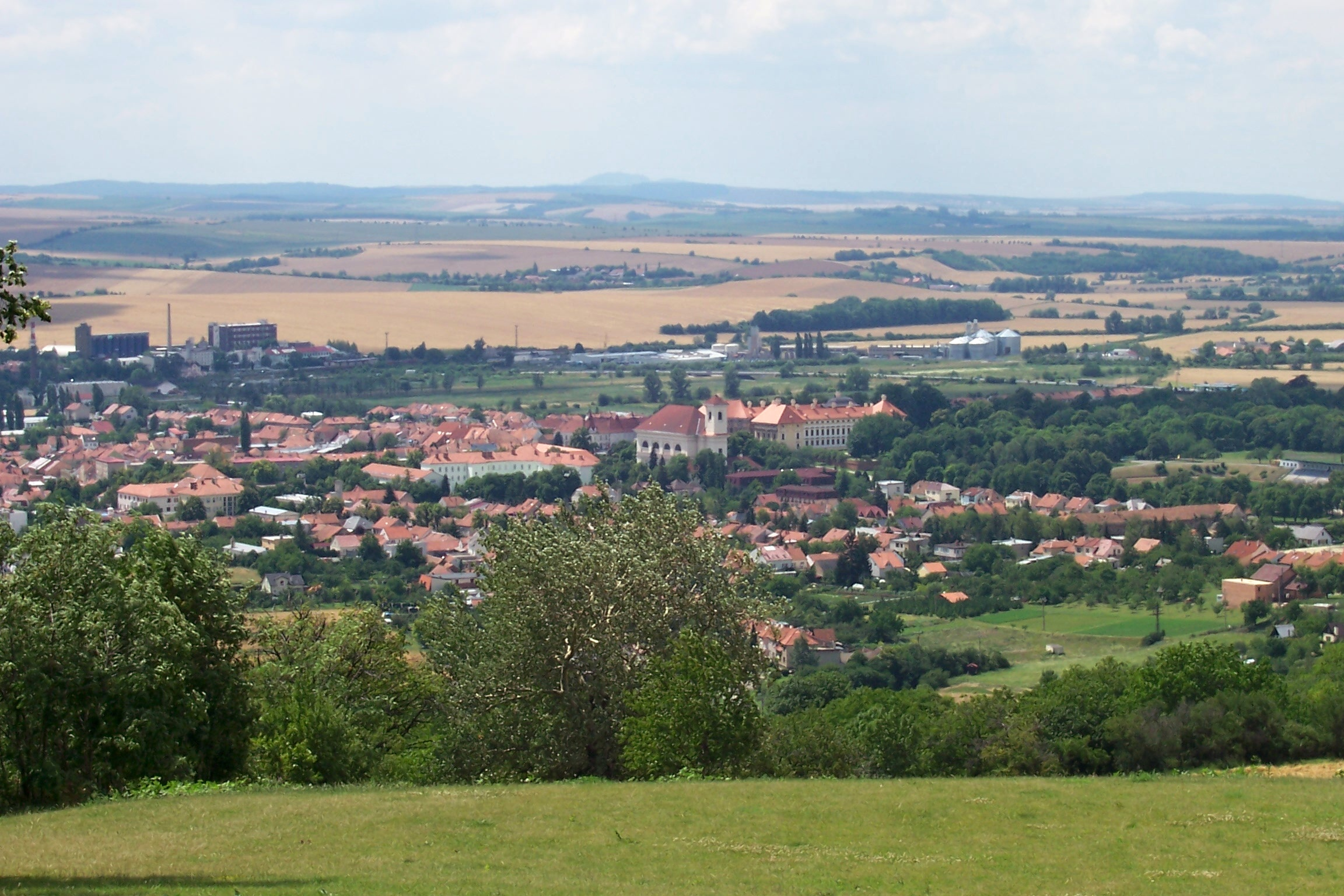 Slavkov u Brna in Vyškov District, Czech Republic. General view from St.-Urban-chapel .